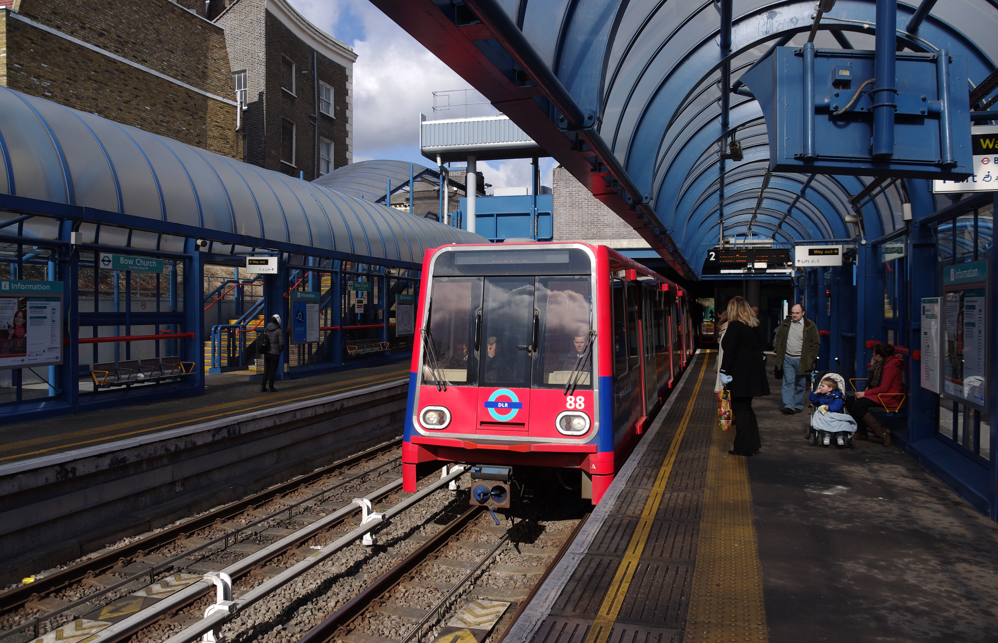 DLR Class B92 88 arrives at Bow Church DLR station with a service for Canary Wharf.